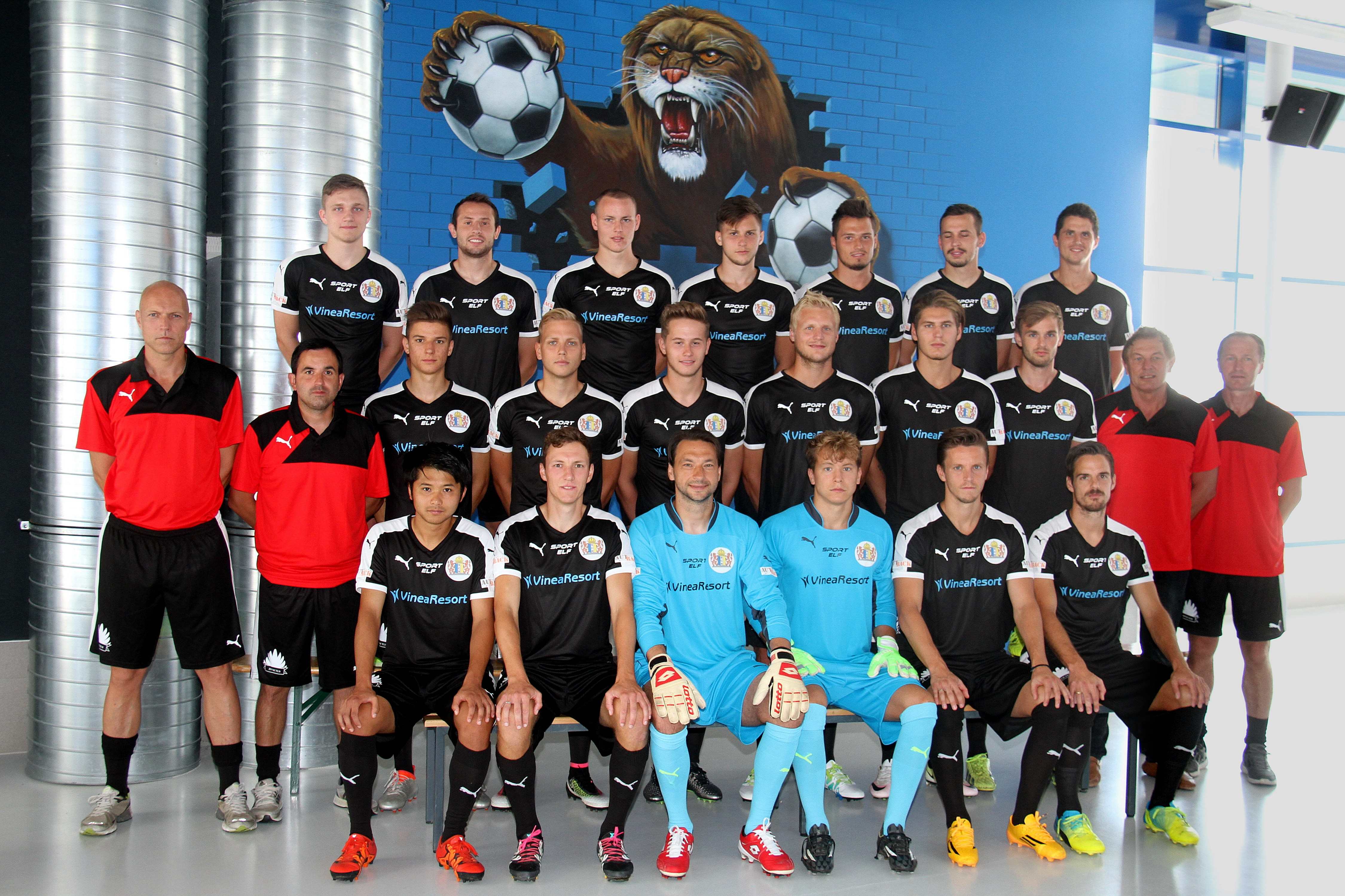 SC Ritzing squad for the 2016-17 season. – The photo shows the squad of SC Ritzing for the season 2016-17.